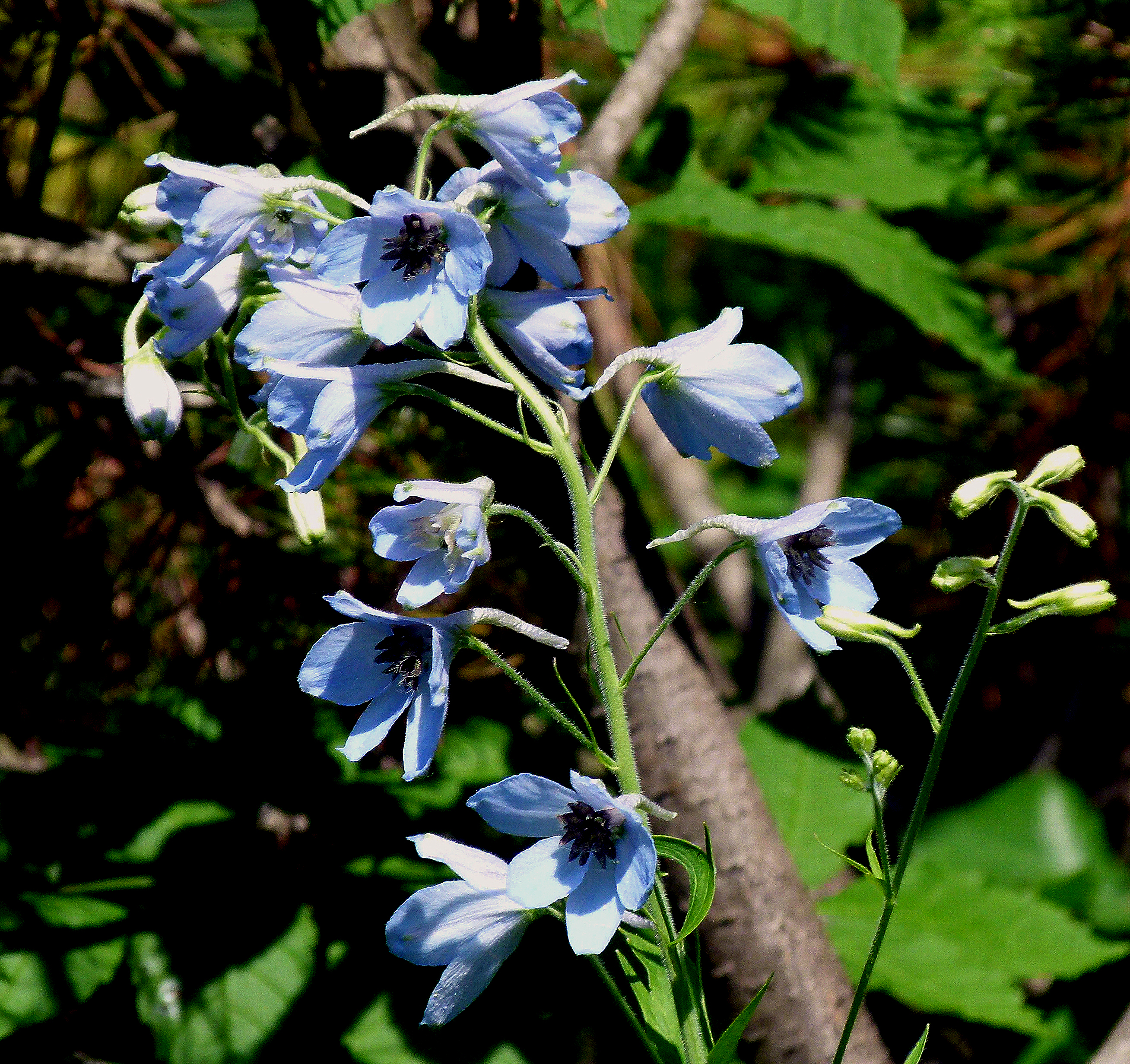 Zirc Arboretum